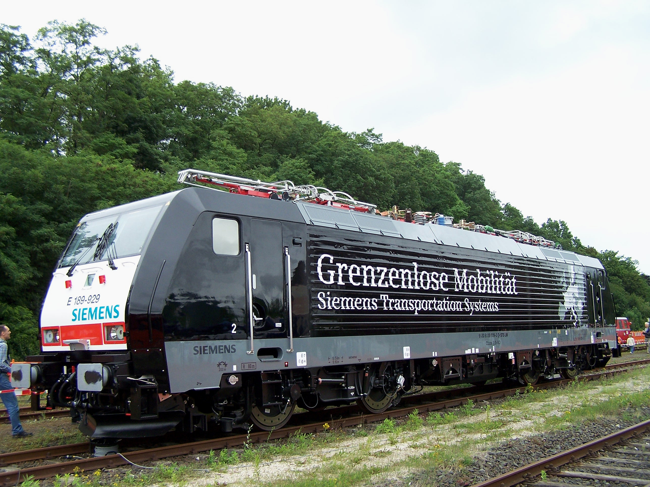 Locomotive Siemens ES64F4 E 189 929 in Hersbruck, Germany, June 30th, 2007